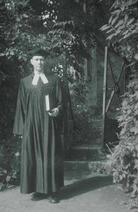 The picture shows the German theologian and missionary scholars Paul Gaebler 1950 in Oesselse near Hanover.